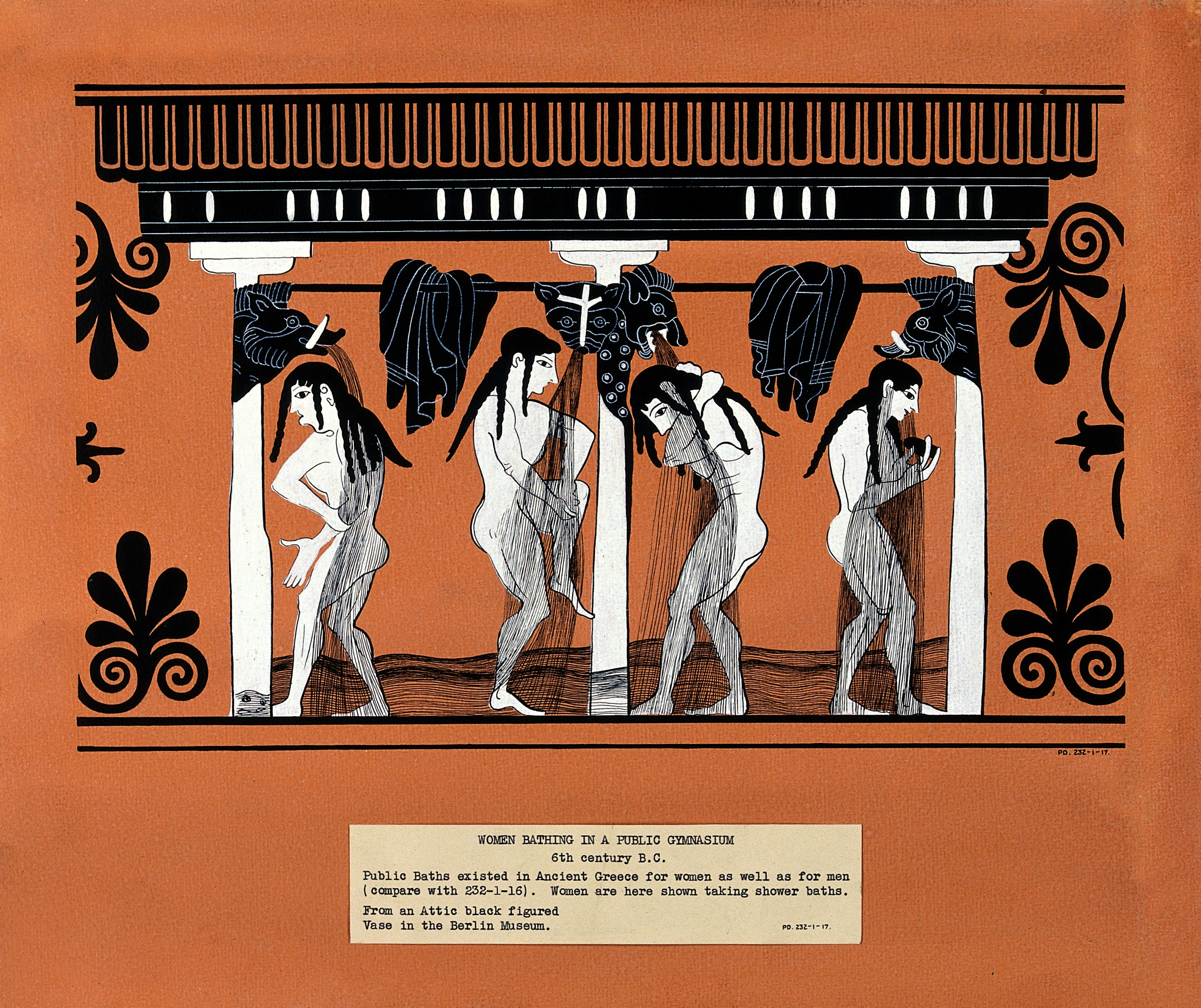 Women bathing in a public gymnasium. Gouache painting. Iconographic Collections